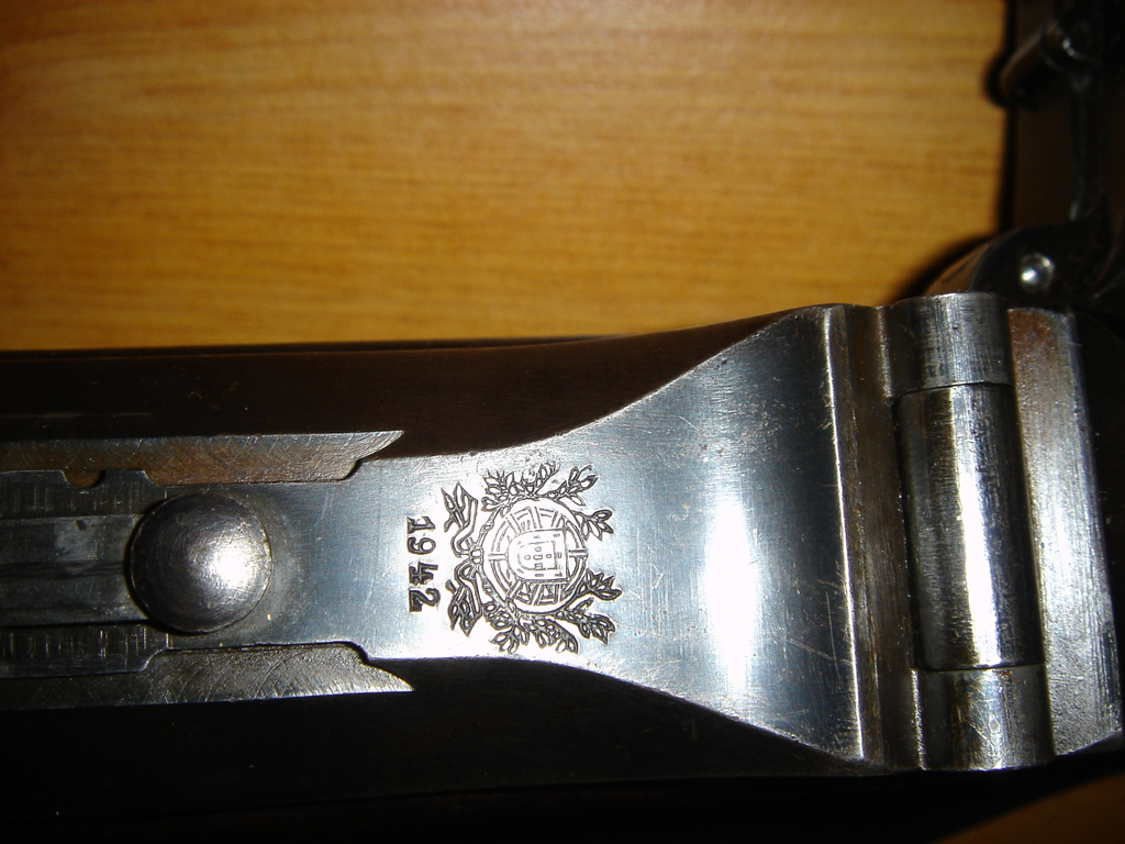 MP 34 - Licensing